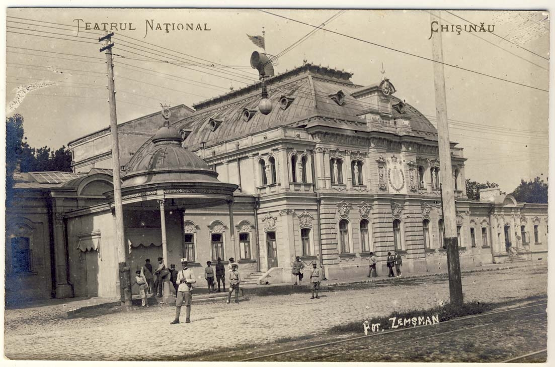 Teatrul National, Chisinau